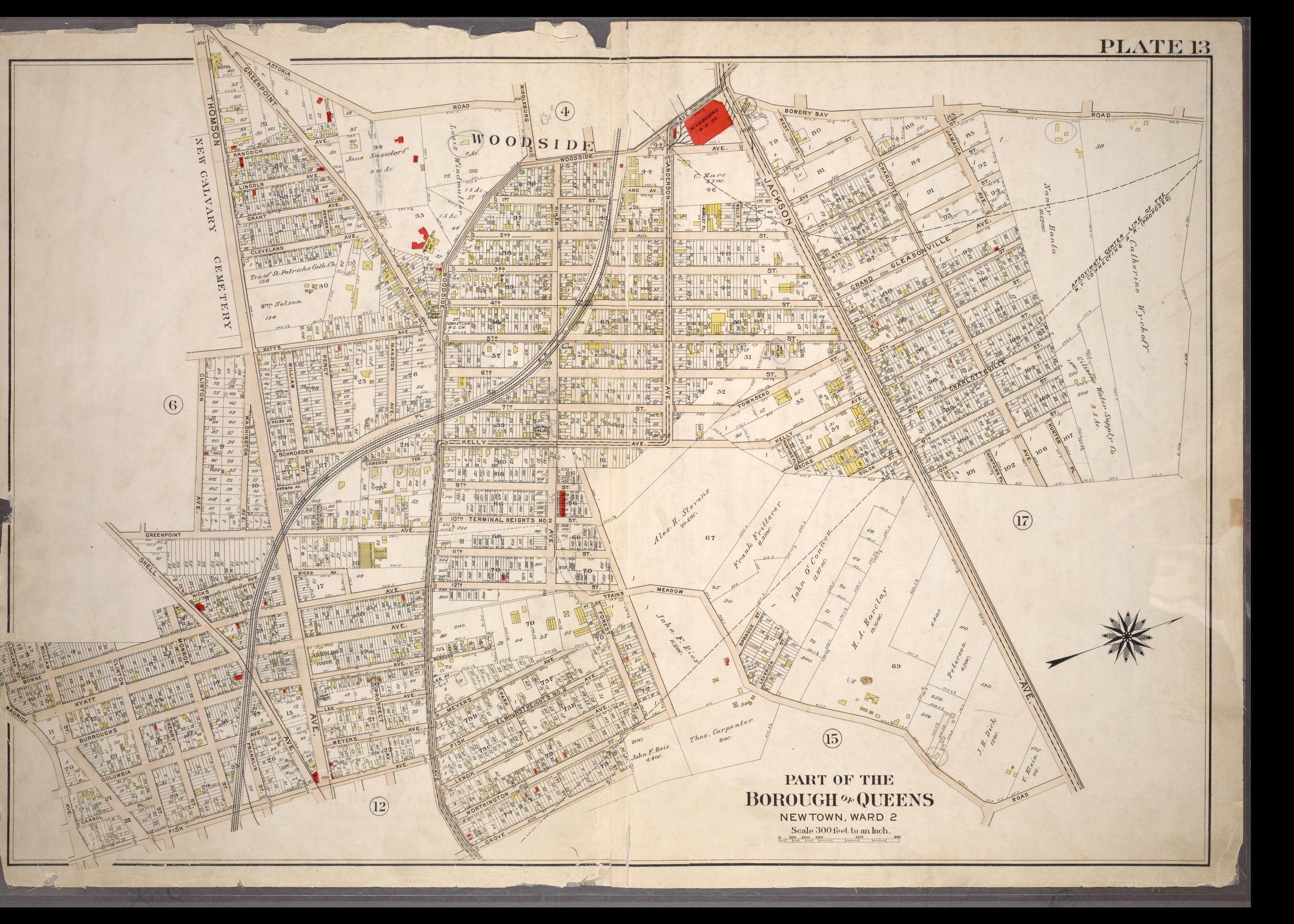 1909 Atlas sheet showing Queens Ward 2 (encompassing the village of Woodside). This property map, used for fire insurance purposes, shows houses and other buildings, streets, rail and trolley lines, and elevation and hydrants.